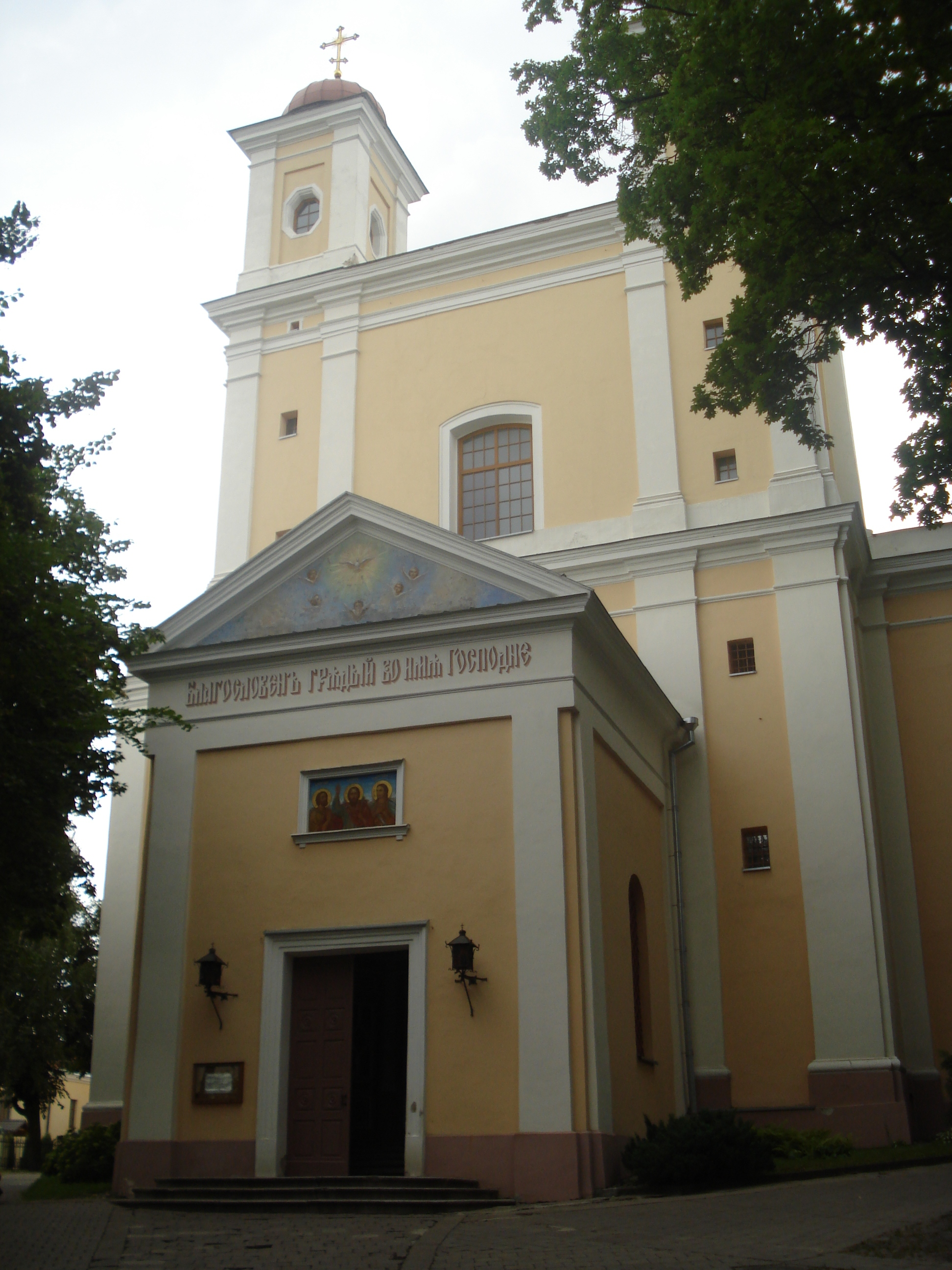 Main fasade of the Orthodox Church of the Holy Spirit in Vilnius (Aušros vartų g. 10)